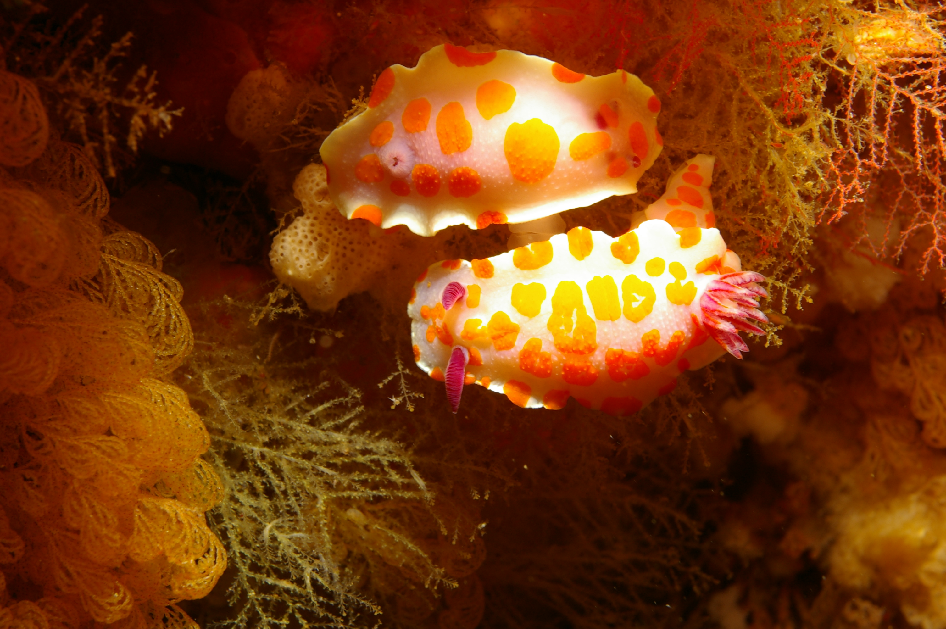 Photograph of two clown nudibranch. In this photo you can observe one of the nudibranchs with its lungs unfurled, and the other with its lungs retracted. Taken in the Poor Knights Islands of New Zealand, with a Pentax istDS with a 50mm macro lens.